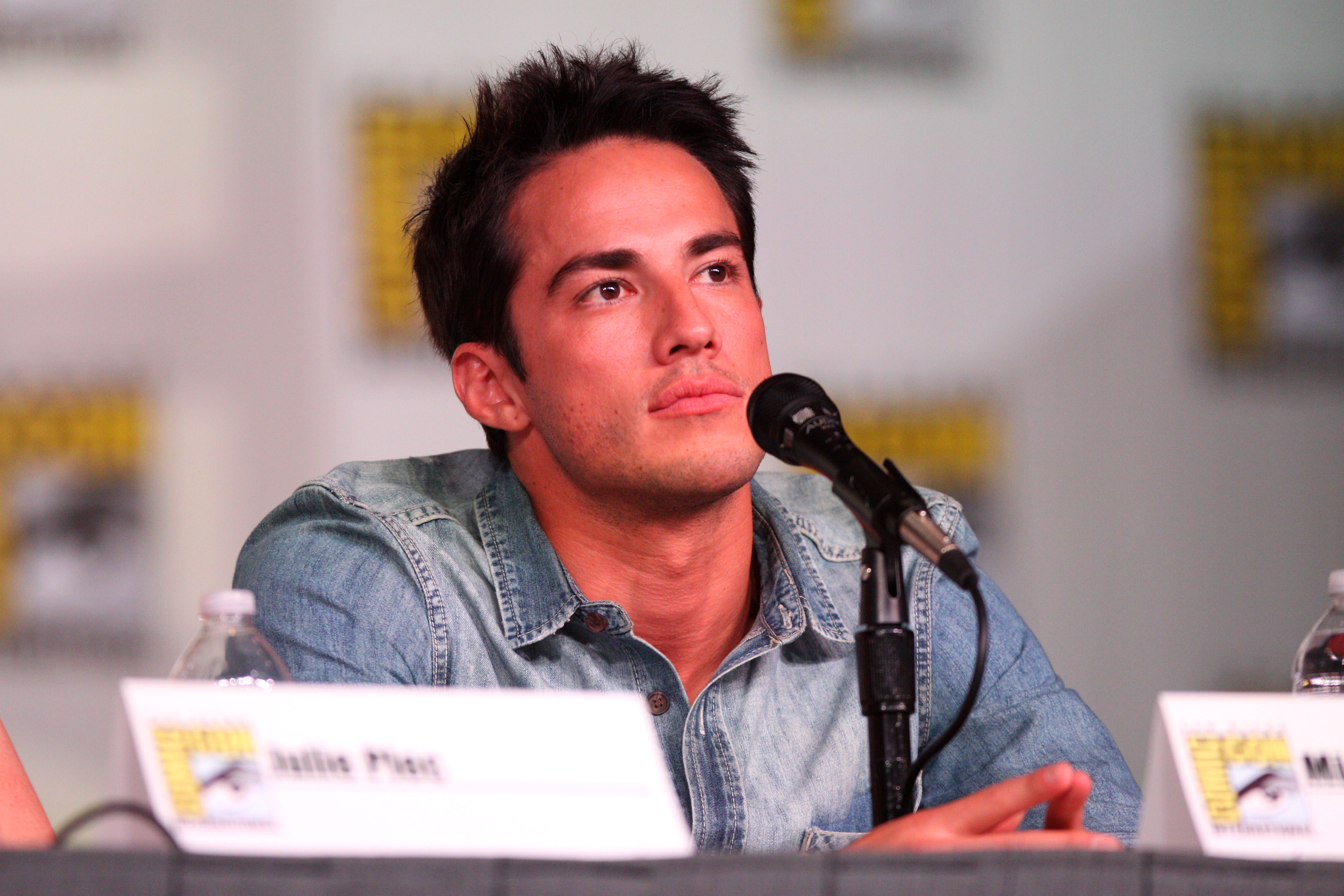 Michael Trevino speaking at the 2012 San Diego Comic-Con International in San Diego, California.